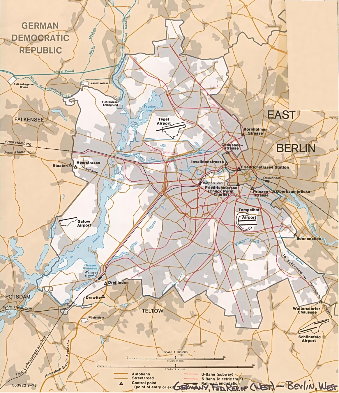 From the Perry-Castaneda Map Collection [1]. Produced by the Central Intelligence Agency (CIA).